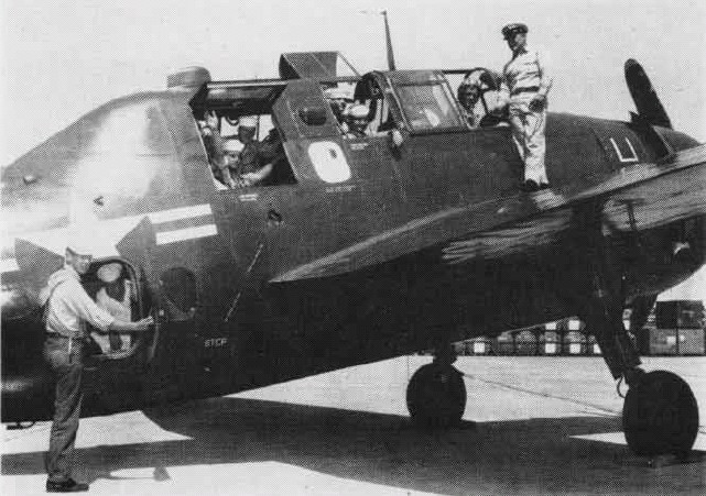 Closeup of a U.S. Navy Grumman TBM-3R COD-plane of transport squadron VR-22 at Naval Air Station Norfolk, Virginia (USA), in the early 1950s.